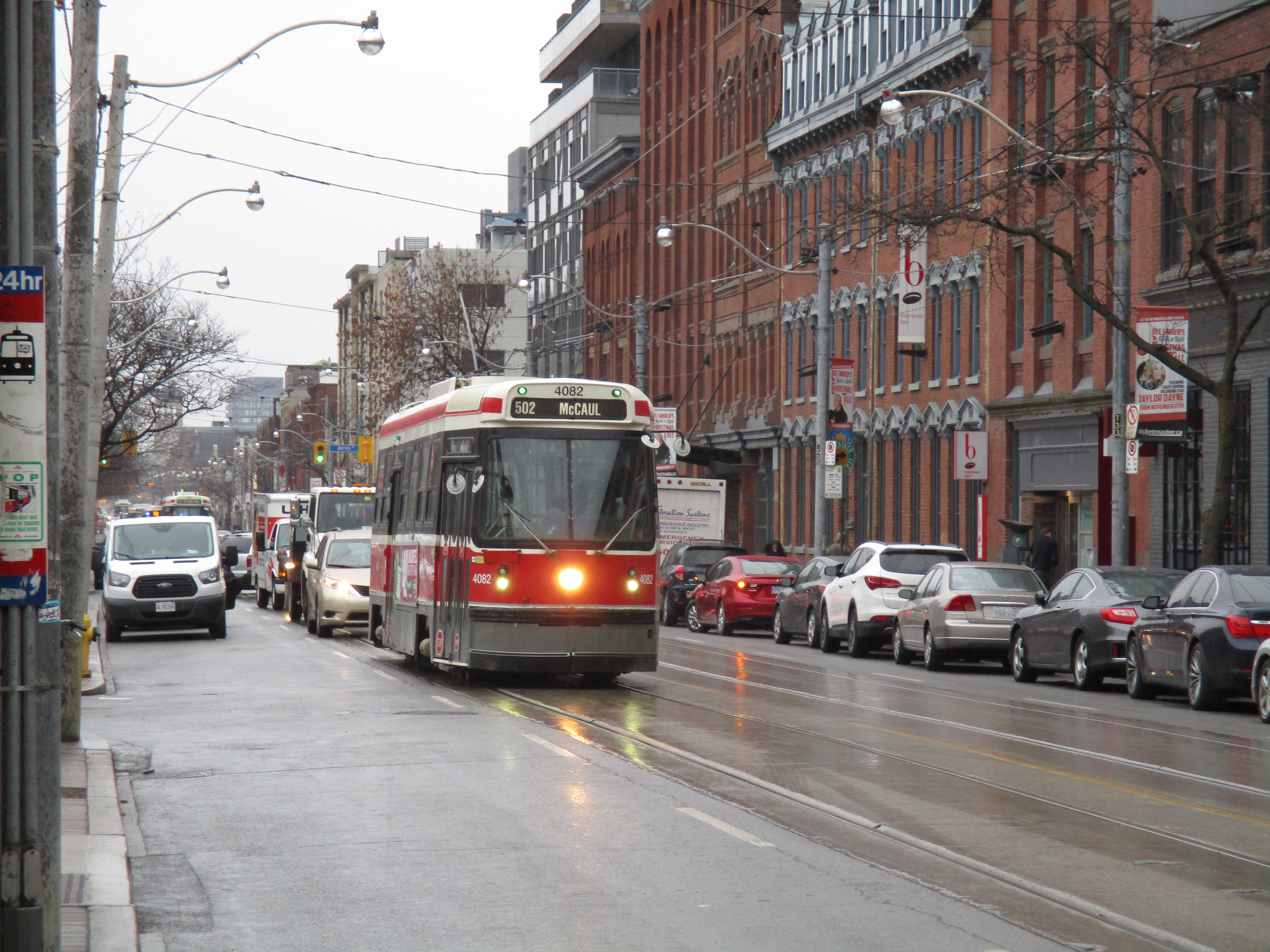 TTC streetcar on Queen, 2015 12 01 -e